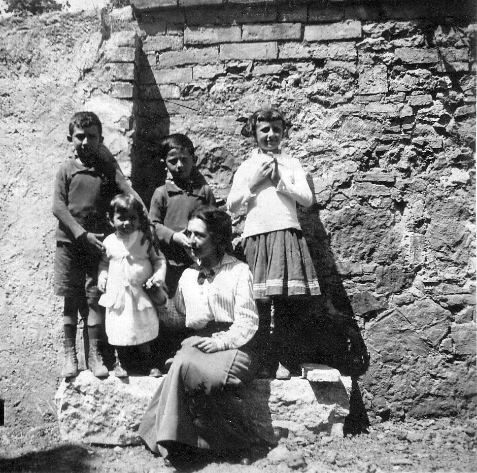 Portrait of Maria Corsini with all her children (probably taken around 1915-1917 - the youngest child was born in 6 April 1914)